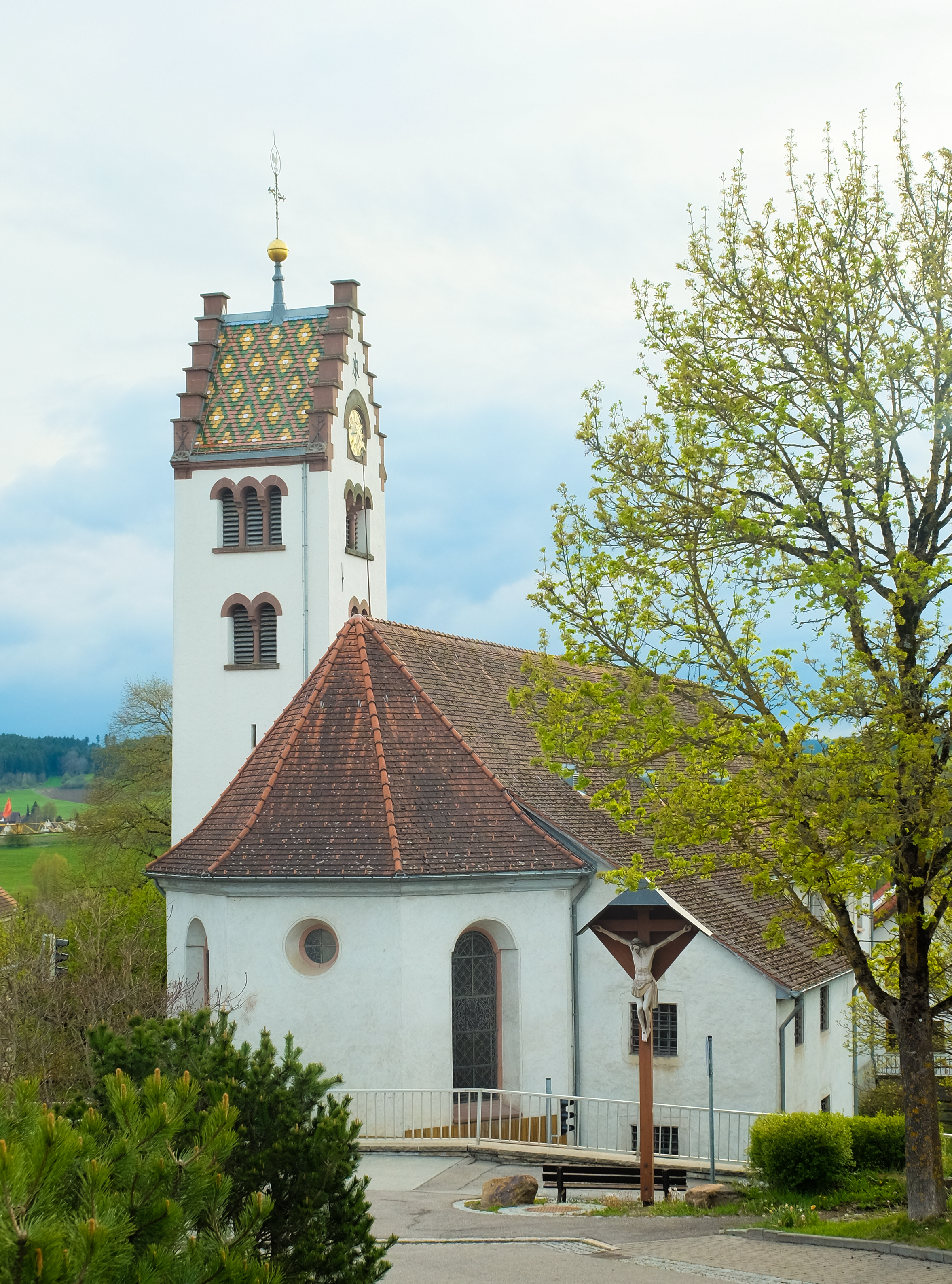 Church Saint Martin (Martin of Tours), Brigachtal-Kirchdorf, district Schwarzwald-Baar-Kreis, Baden-Württemberg, Germany